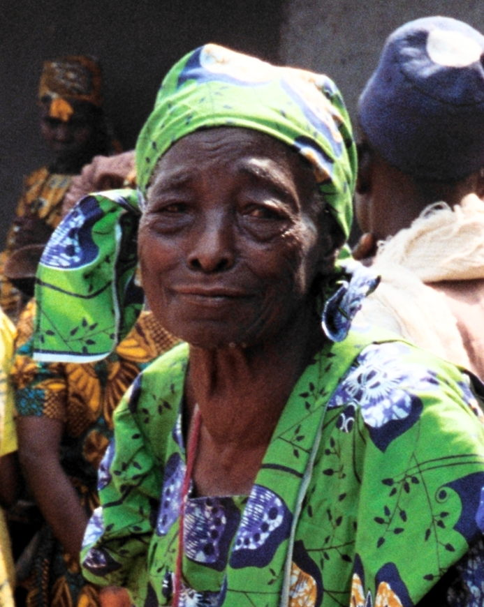 Diko Madeleine Jan 1995 in Somié village during the Nggwun festival